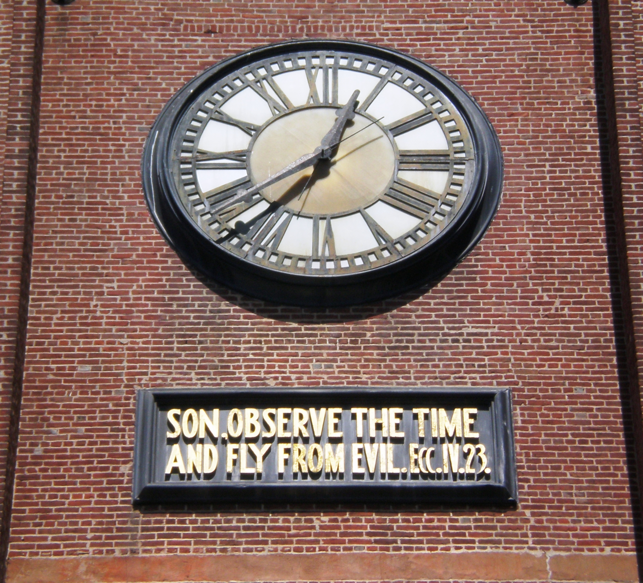 The clock of the bell tower of Old St. Mary's Cathedral in San Francisco.